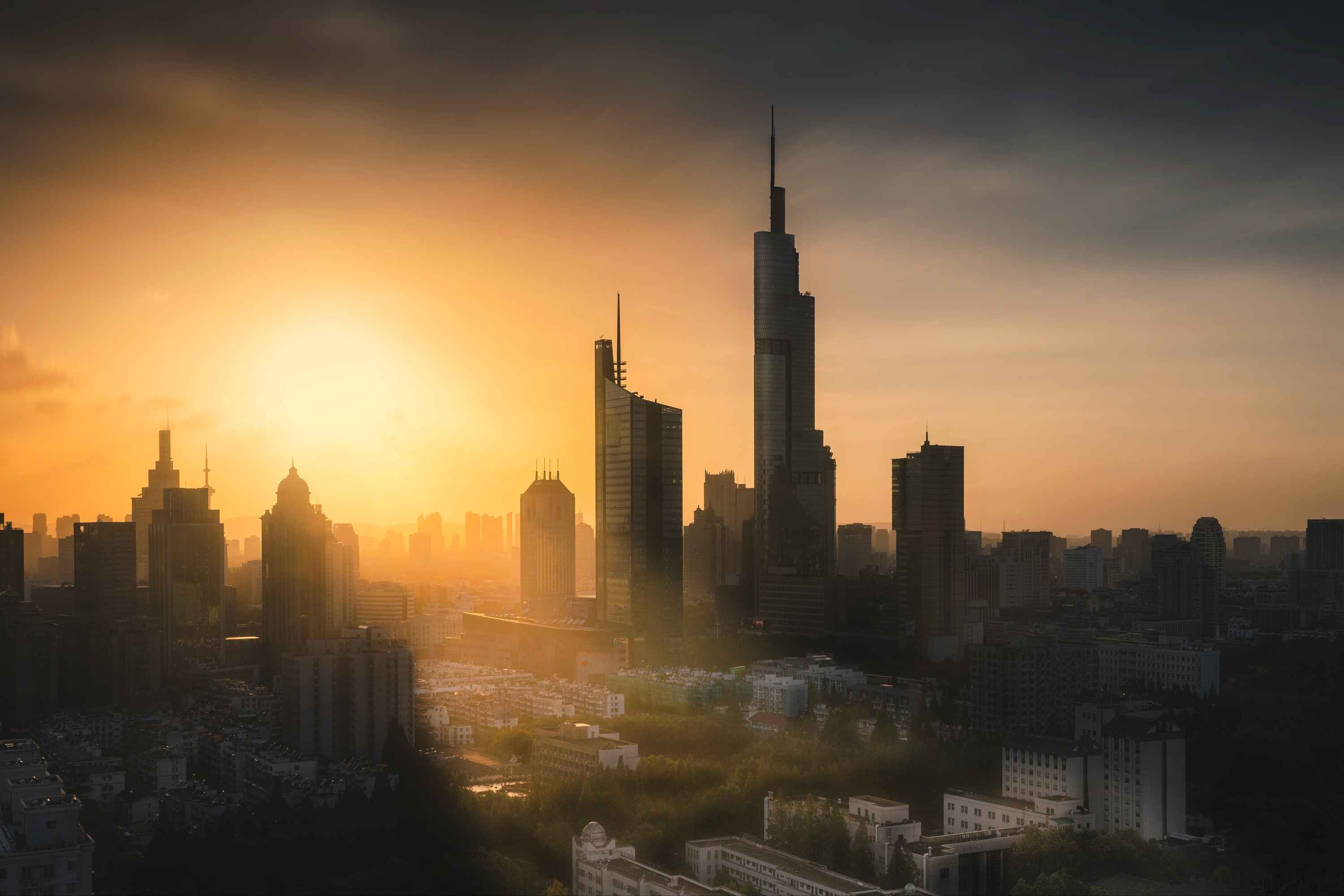 Zifeng Tower at Nanjing